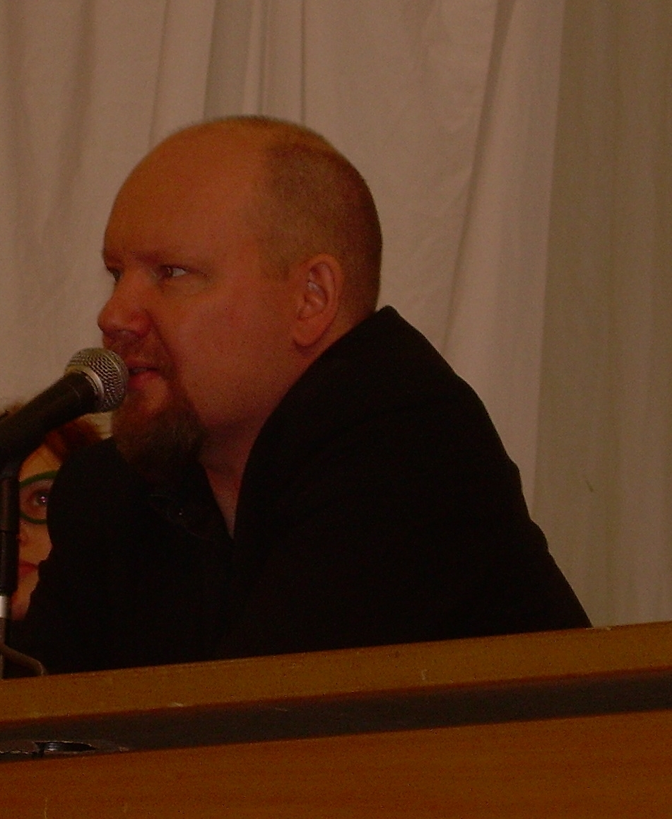 Finnish cartoonist Jussi "Juba" Tuomola at the Turku International Book Fair.